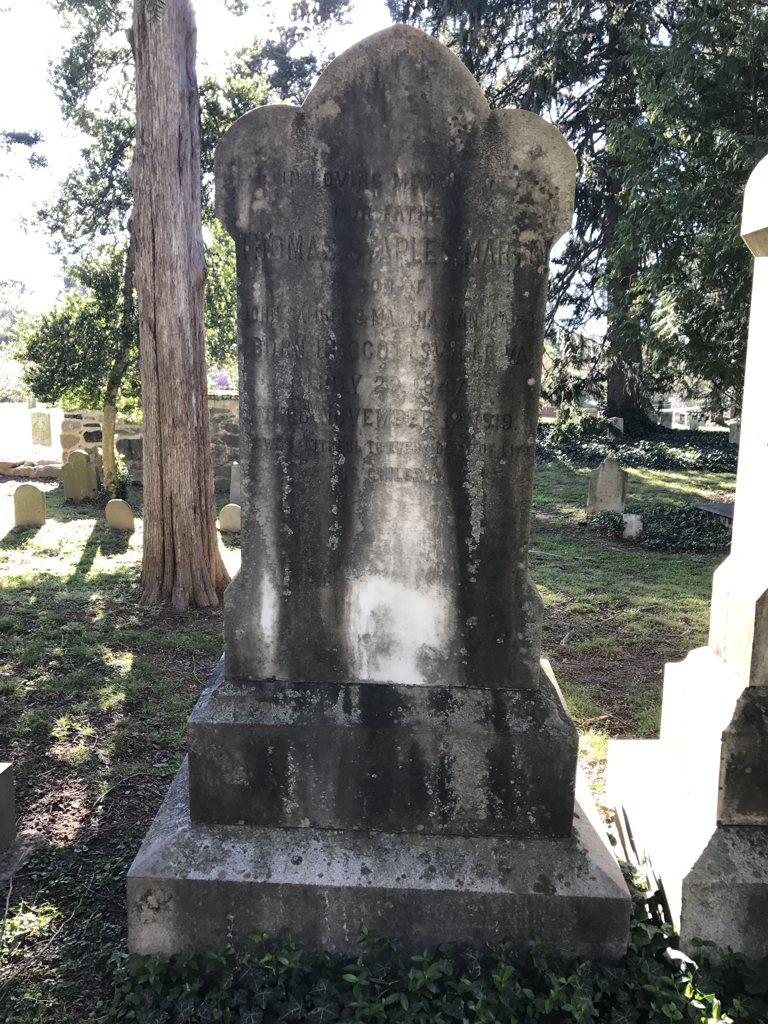 The grave marker of Thomas S. Martin at the University of Virginia Cemetery.